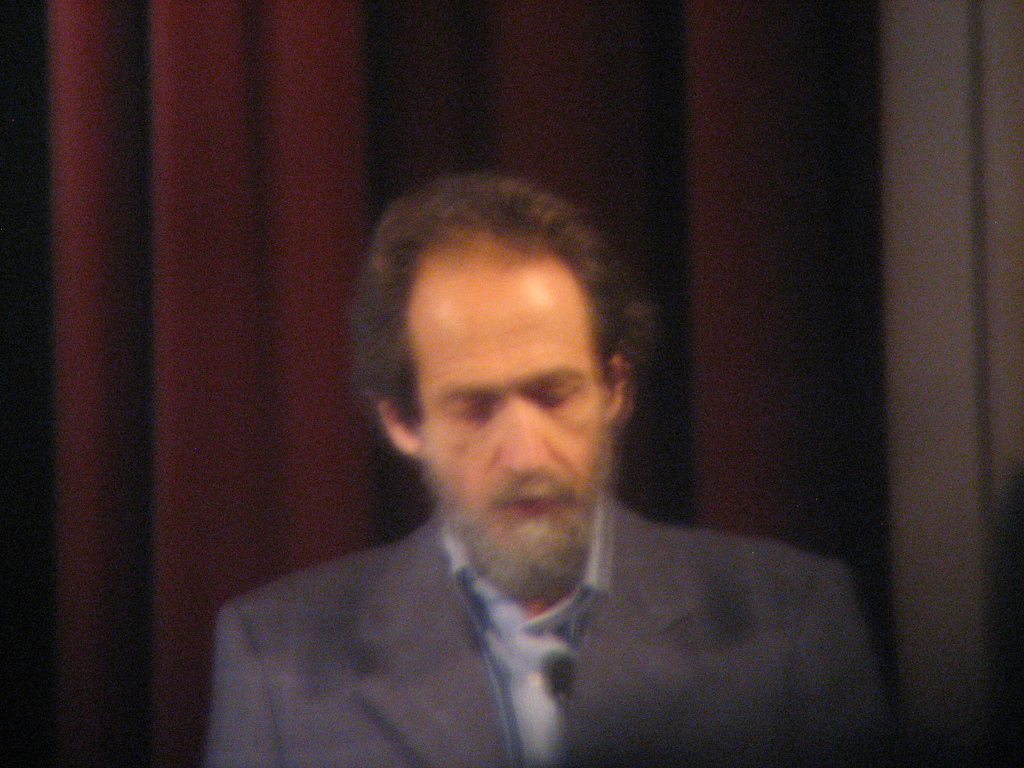 Prominent solid state physicist Jorge E. Hirsch is giving a talk.